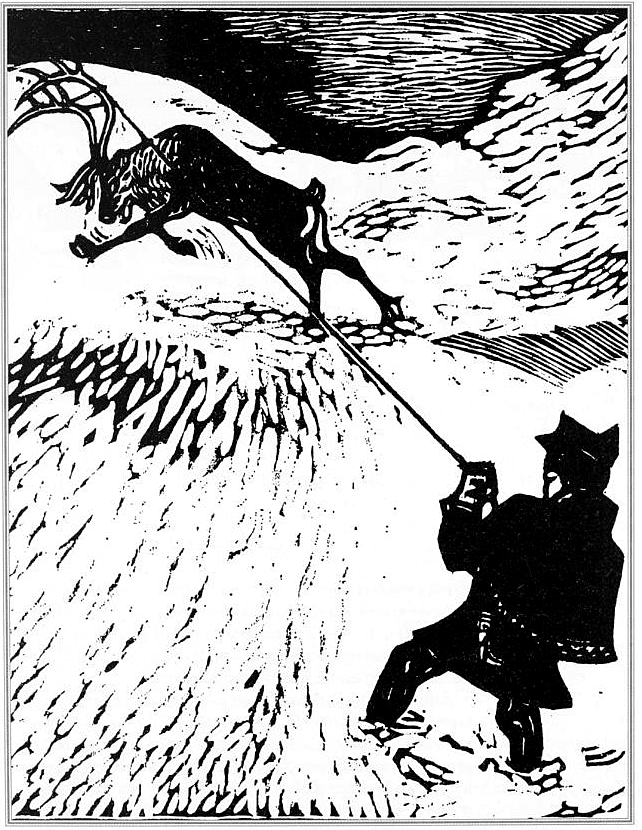 Man with reindeer bull. Woodcut by sami artist John Savio (1902-1938)